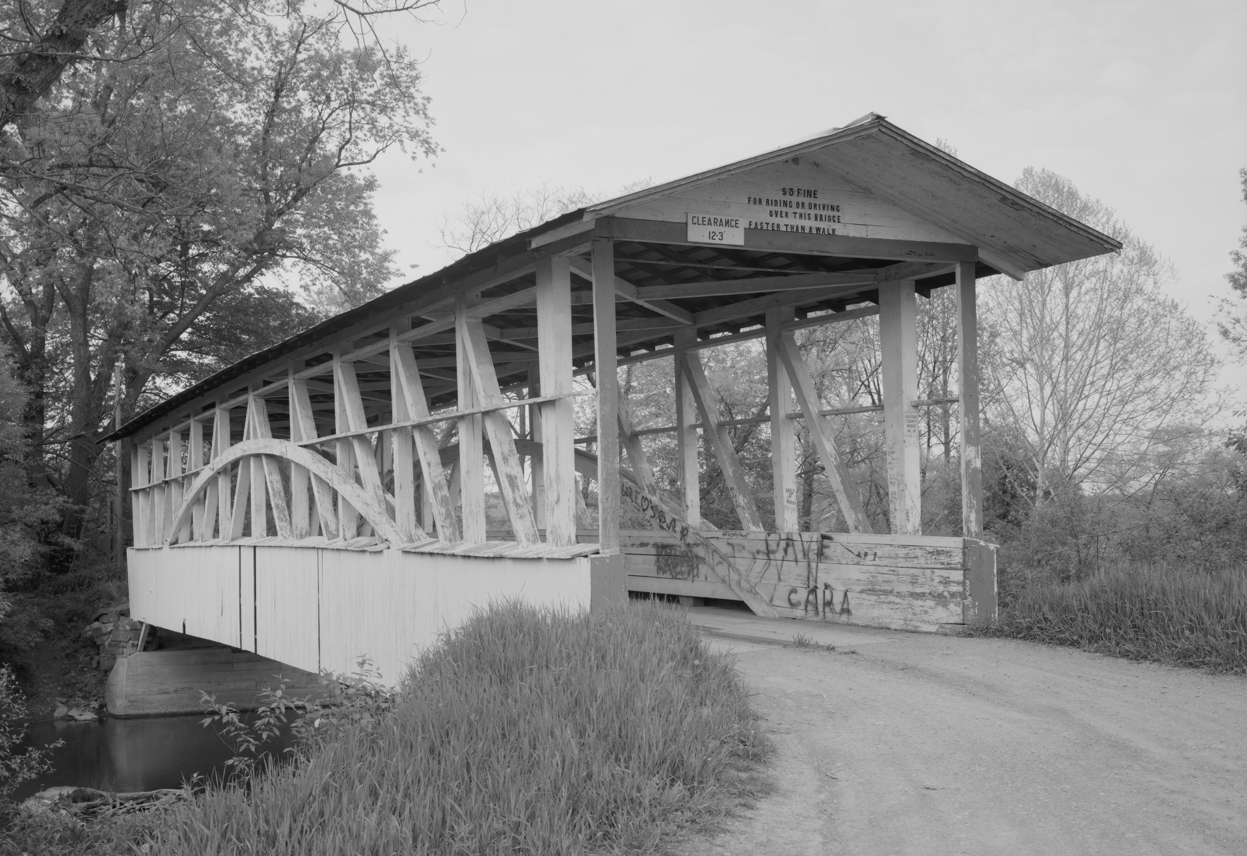 Southern end of the Diehls Covered Bridge, which carries Township Route 418 over the Raystown Branch of the Juniata River south of Schellsburg in Harrison and Napier Townships of Bedford County, Pennsylvania, United States. Built in 1892, this Burr arch truss bridge is listed on the National Register of Historic Places.